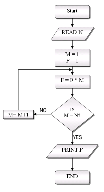 Flowchart example of calculating factorial N ( N! ).